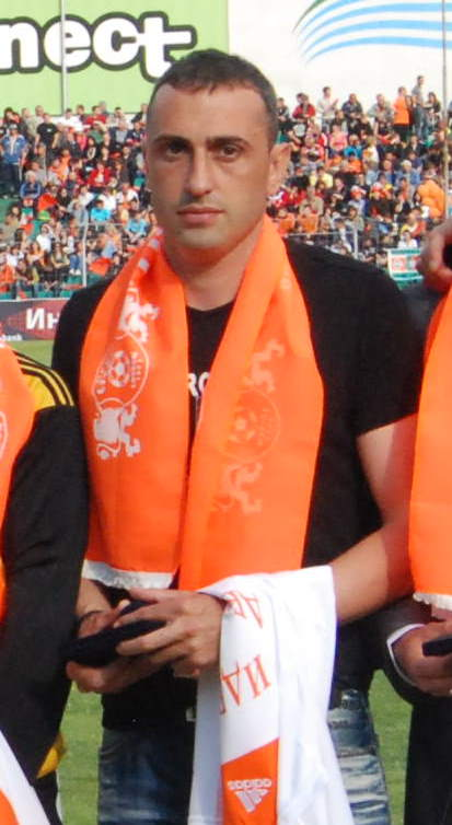 Ivaylo Petev